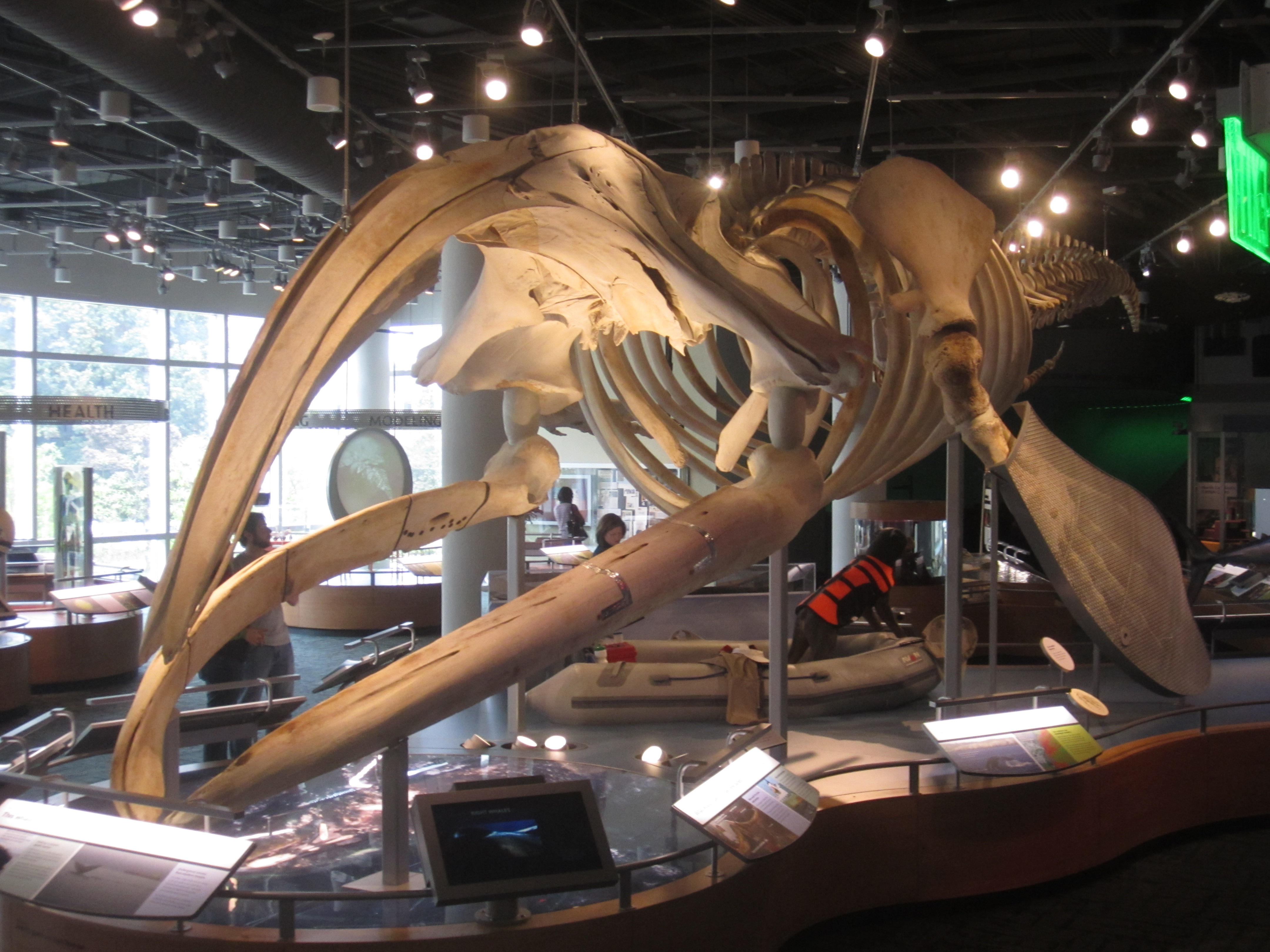 The skeleton of "Stumpy", a North Atlantic right whale whose death by ship strike helped lead to laws that require slower cargo ship speeds in whale migration routes. Exhibited at the North Carolina Museum of Natural Sciences in Raleigh, North Carolina.